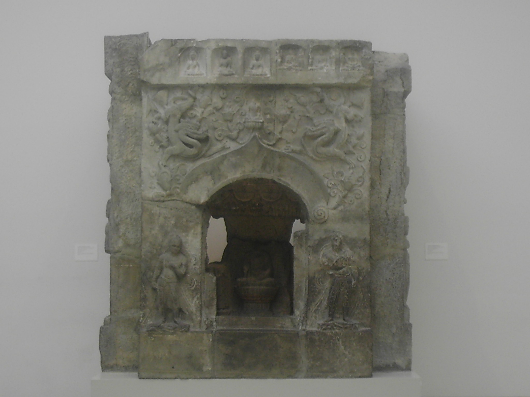 A limestone-scuplted pagoda sanctuary from Henan province, made during either the late Northern Qi (550–577 AD) or the Sui Dynasty (581–618 AD).